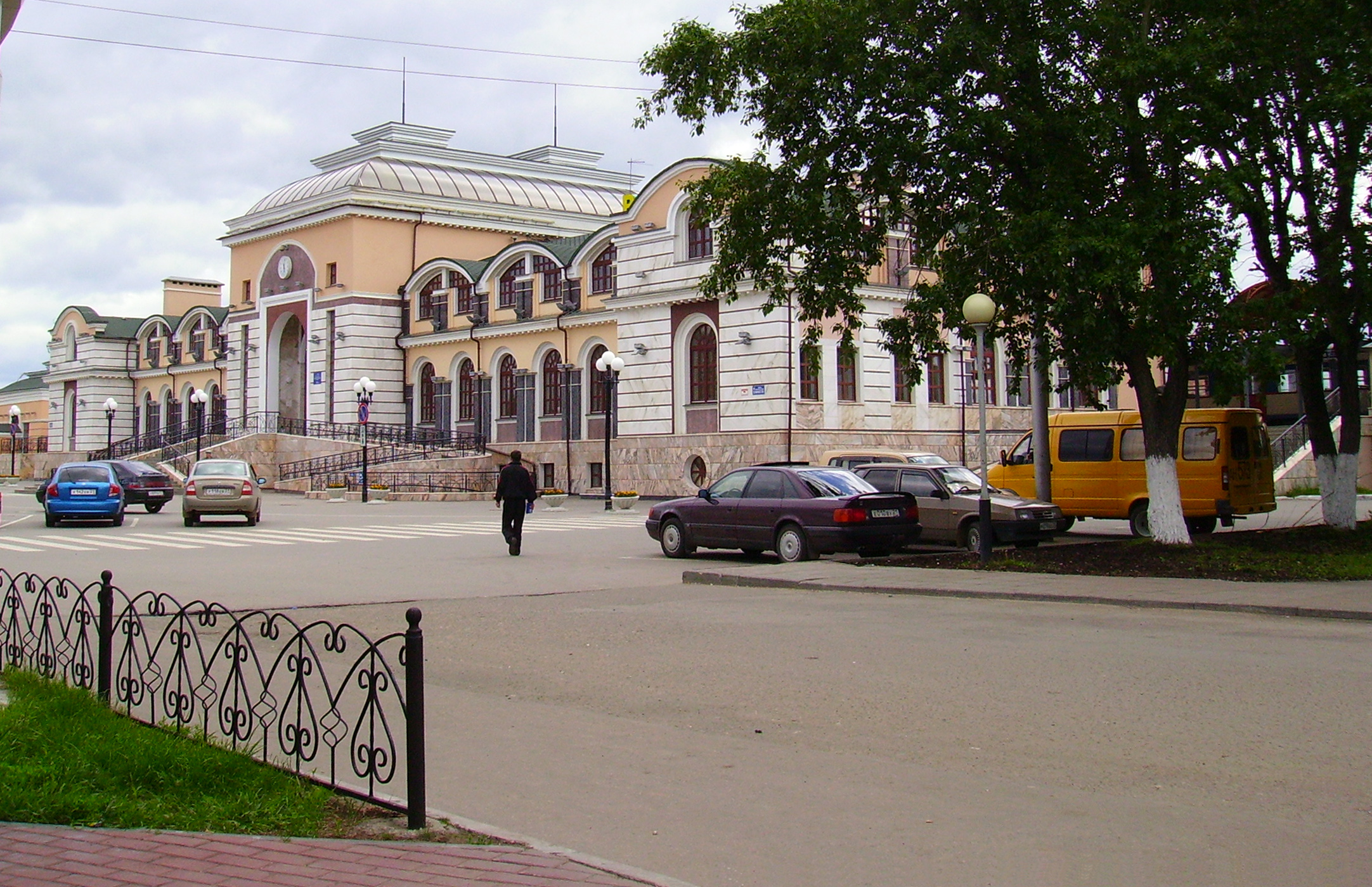 Railway Station in Cheboksary